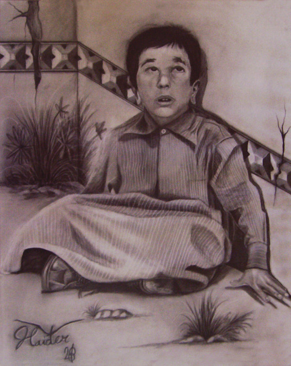 Uncertain by Haider Al-Shabaan